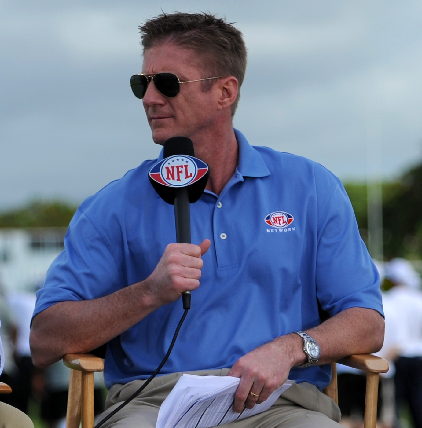 Fran Charles and Tom Waddle, both NFL Network analysts, interview Col. Dann Carlson, the 647th Air Base Group commander and Joint Base Pearl Harbor-Hickam deputy commander, during the Pro Bowl practice sessions at Earhart Field, Hawaii, Jan. 26, 2012. (U.S. Air Force photo/Staff Sgt. Mike Meares